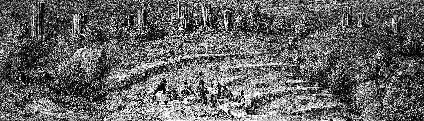 Lithograph (detail) by Prosper Baccuet representing the scientists of the Morea Expedition studying the stadium of the antic city of Messene in 1829 (1836)